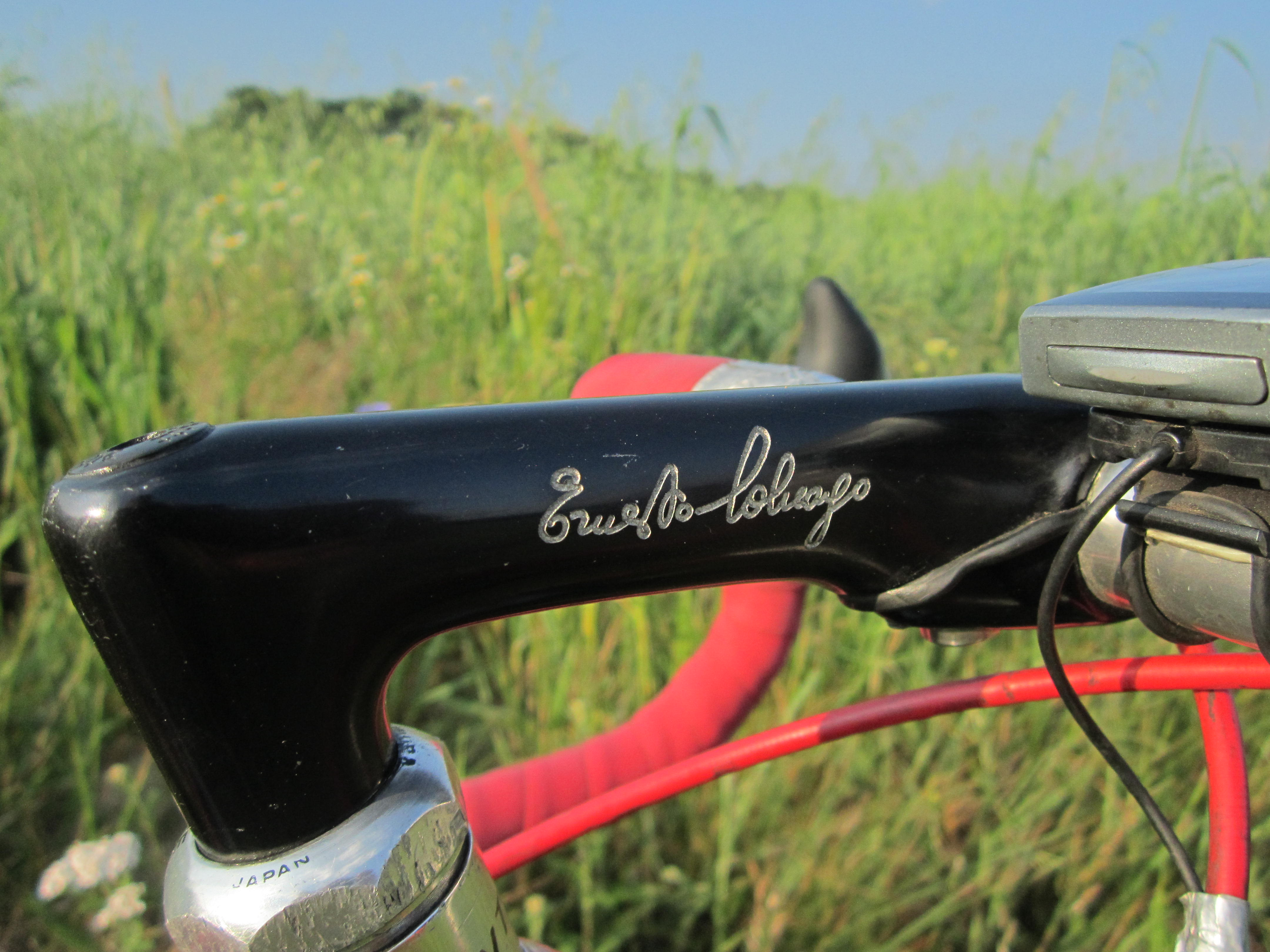 3ttt Ernesto Colnago quill type stem